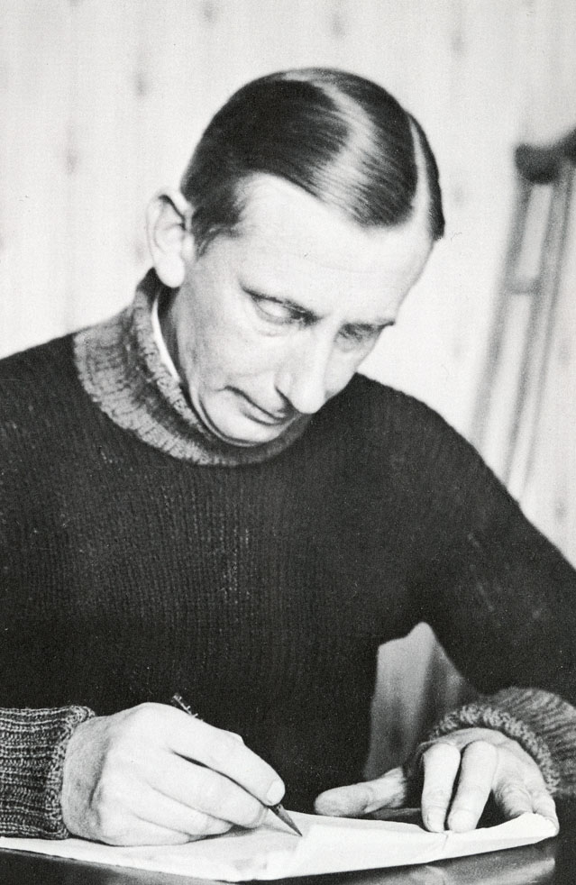 Black and white photo of Frederick Philip Grove seated at a desk, looking down and writing